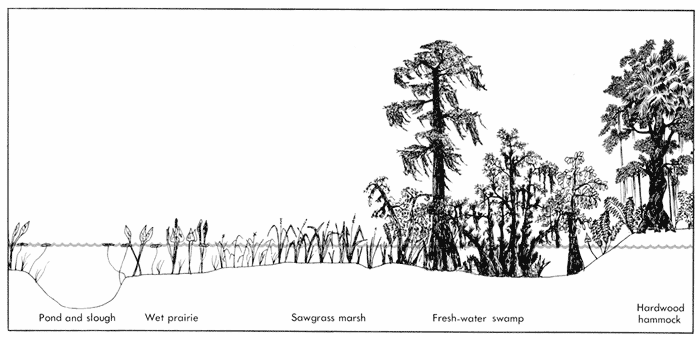 A cross section of vegetation and water levels in various Everglades ecosystems.